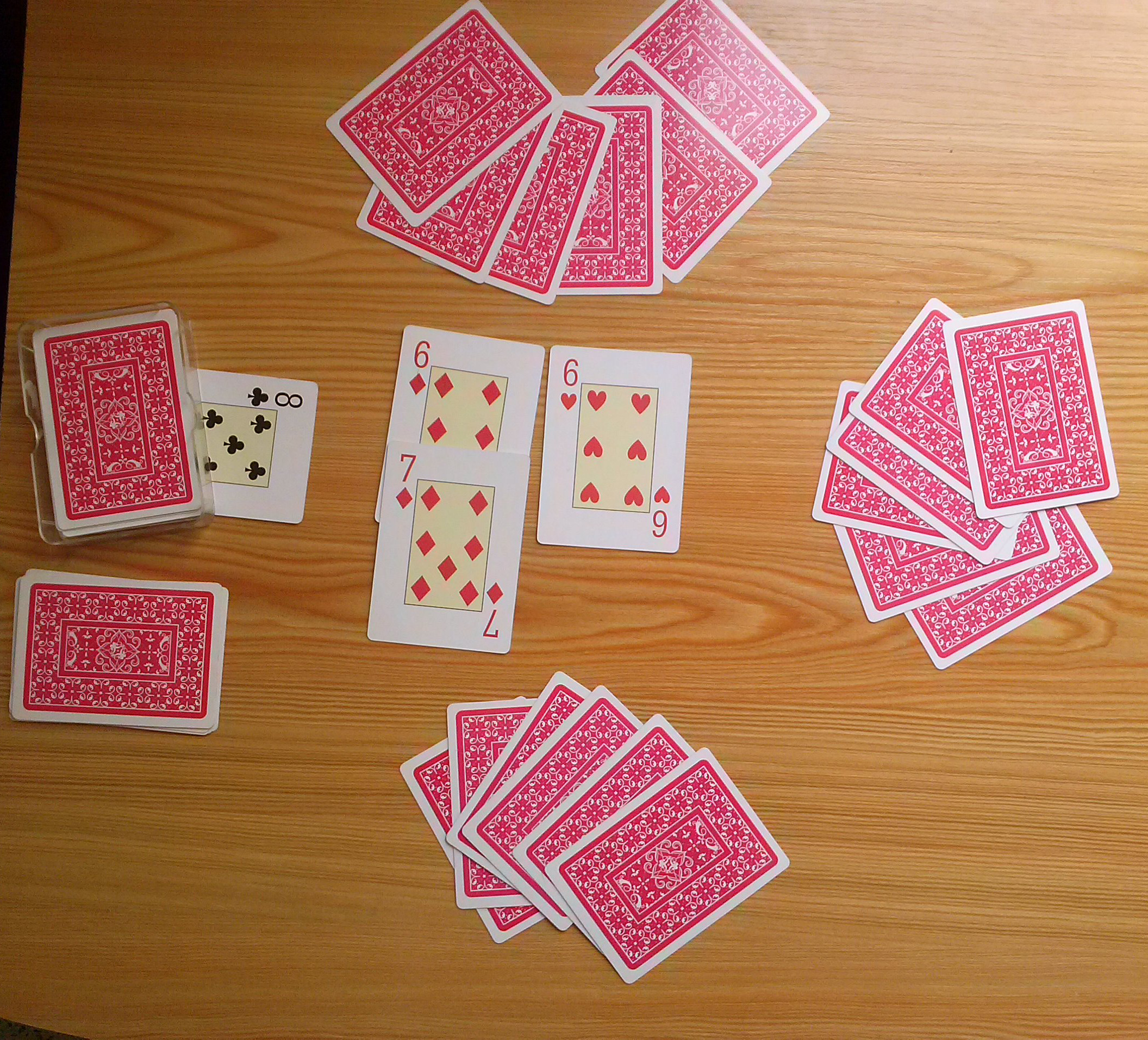 In the picture we see a three player game of Durak in process. The atacker provide a second card after one succeded defense. Now it is the turn of the defense after a second card of the attacker. We can see too the deck where the cards are taken and the discarded one as well as the trump suit.